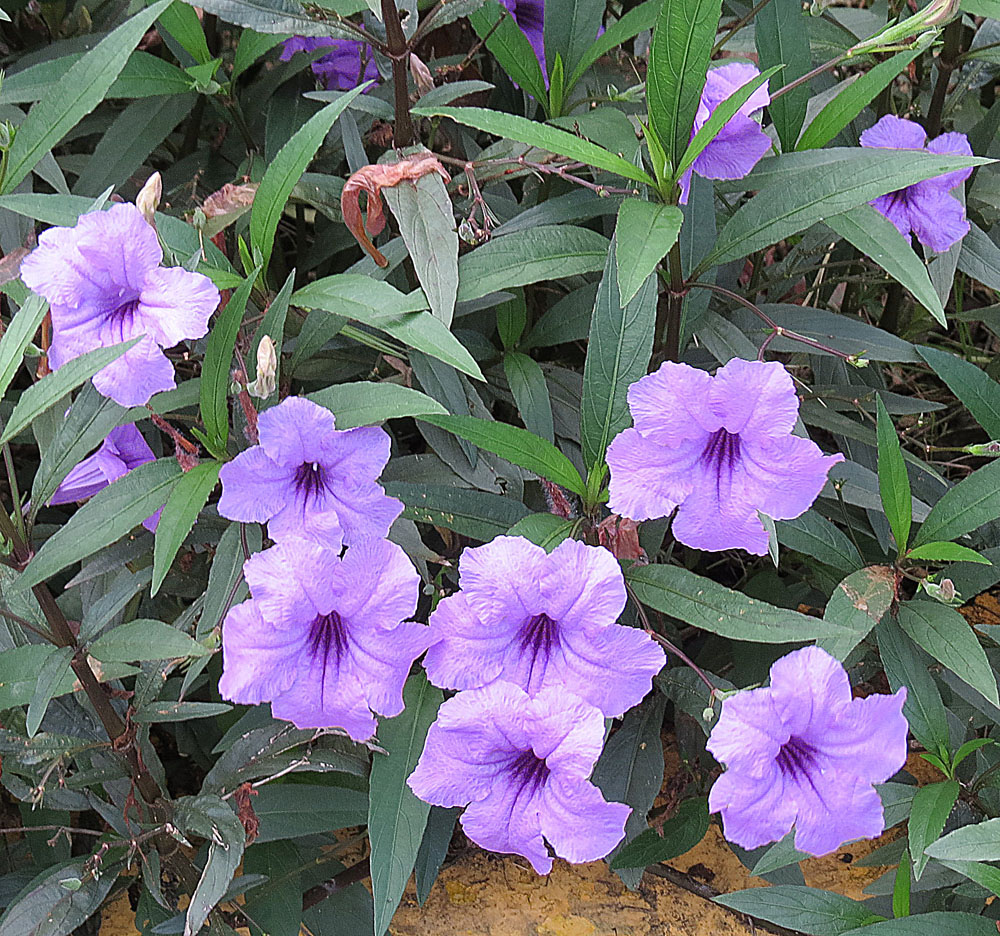 Ruellia simplex in Gamboa many names and synonyms